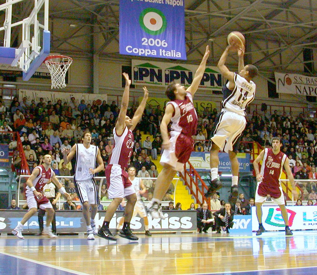 Description: Carpisa Napoli 2005-2006 Source: self-made Location: Naples, Italy Photographer: Massimo Finizio